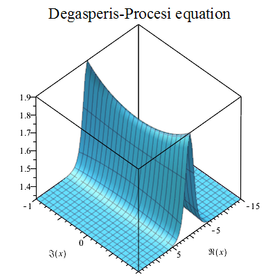 Degasperis-Procesi equation plot